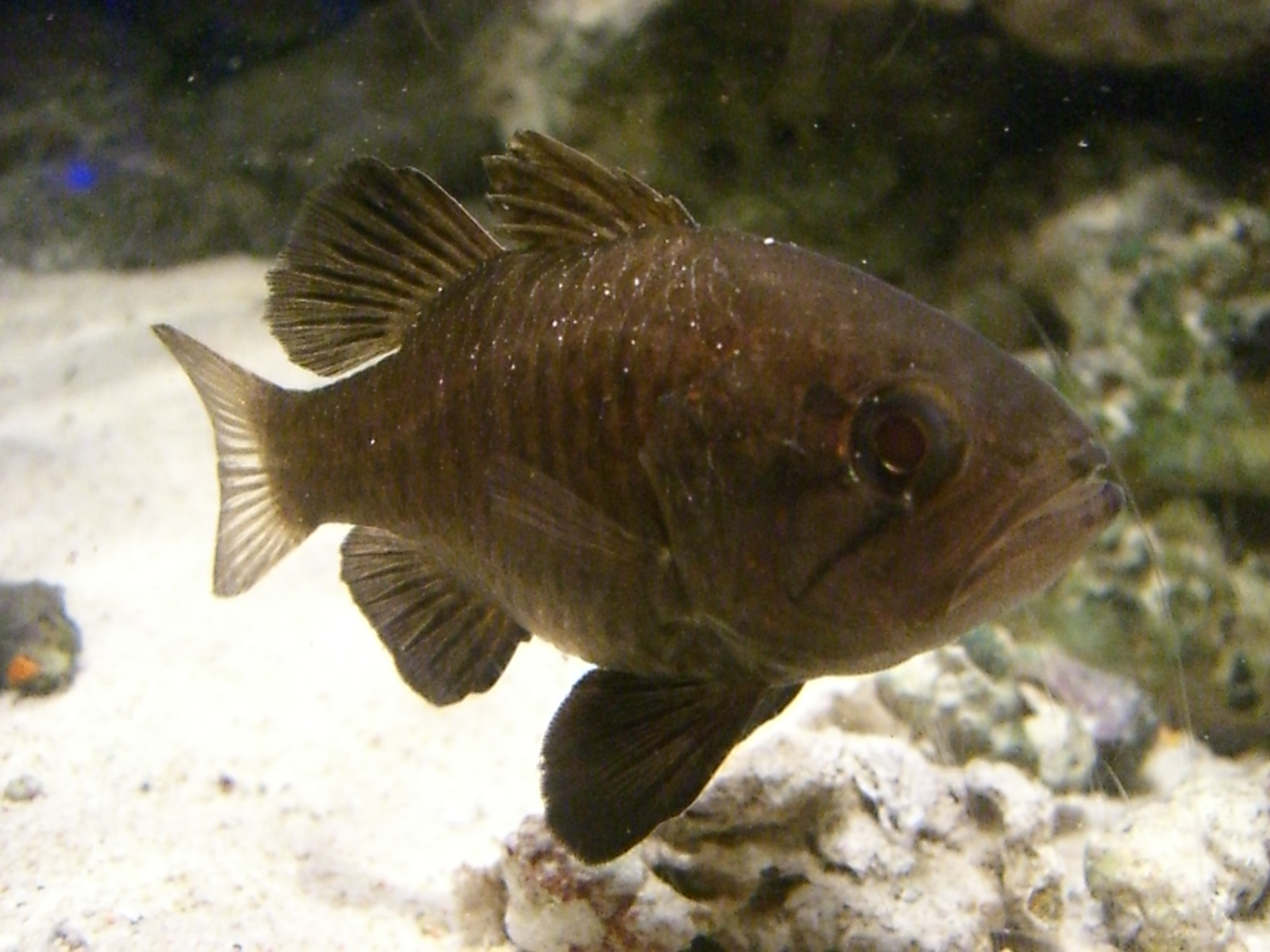 Black cardinalfish （Apogon niger） Hakkeijima Seaparadise , Japan